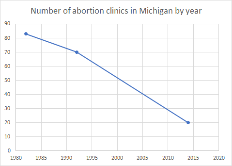 Number of abortion clinics in Michigan by year. Data is from articles linked at